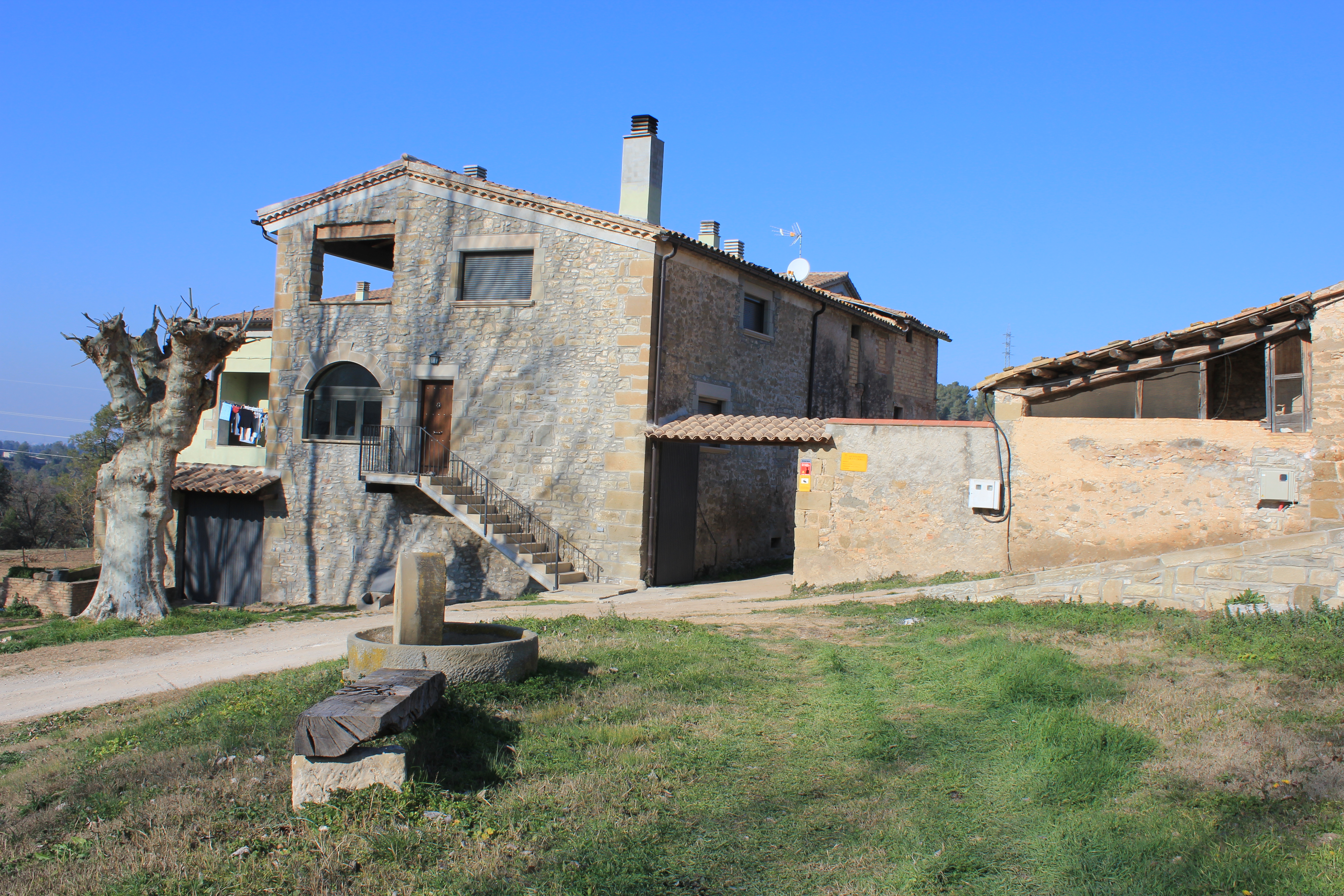 L'Angla. Façana sud. Entrada principal